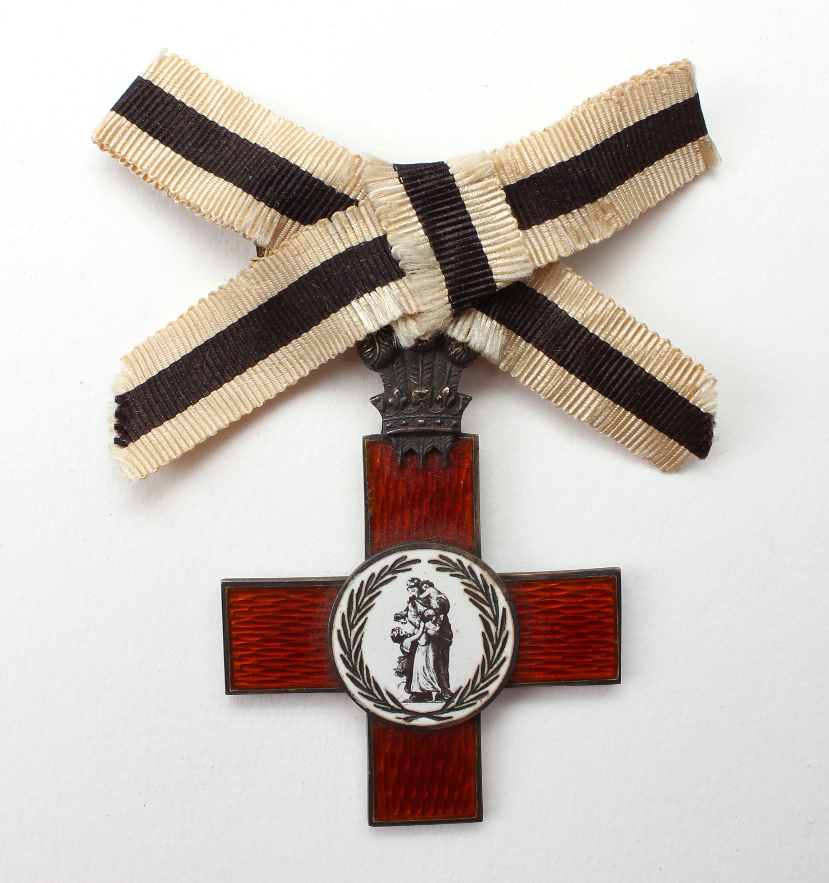 Badge of the Order of the League of Mercy silver and red enamel cross with white centre with figures, black and white bow reverse- LEAGUE OF MERCY 1898